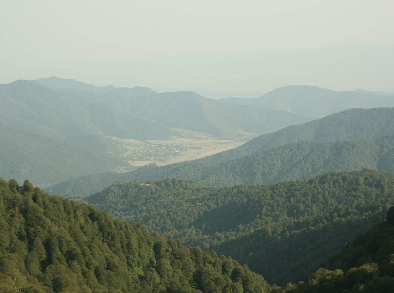 Pankisi Gorge and Alazani Plain as seen from Tbatani